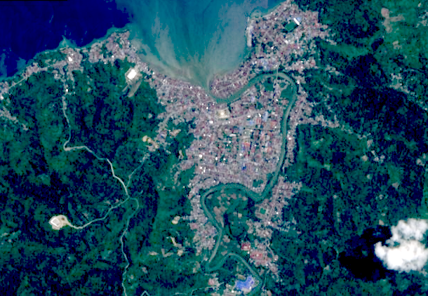 This natural, enhanced-colour image from Sentinel-2 L1C on 5 April 2018 features the small city of Poso in Central Sulawesi, Indonesia.